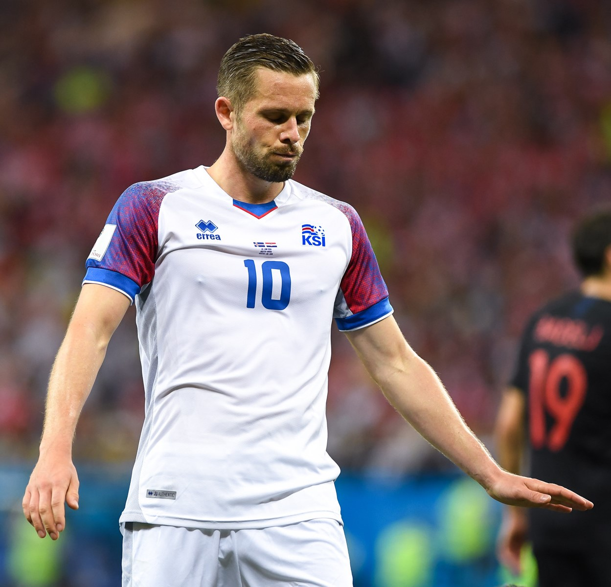 Gylfi Sigurðsson